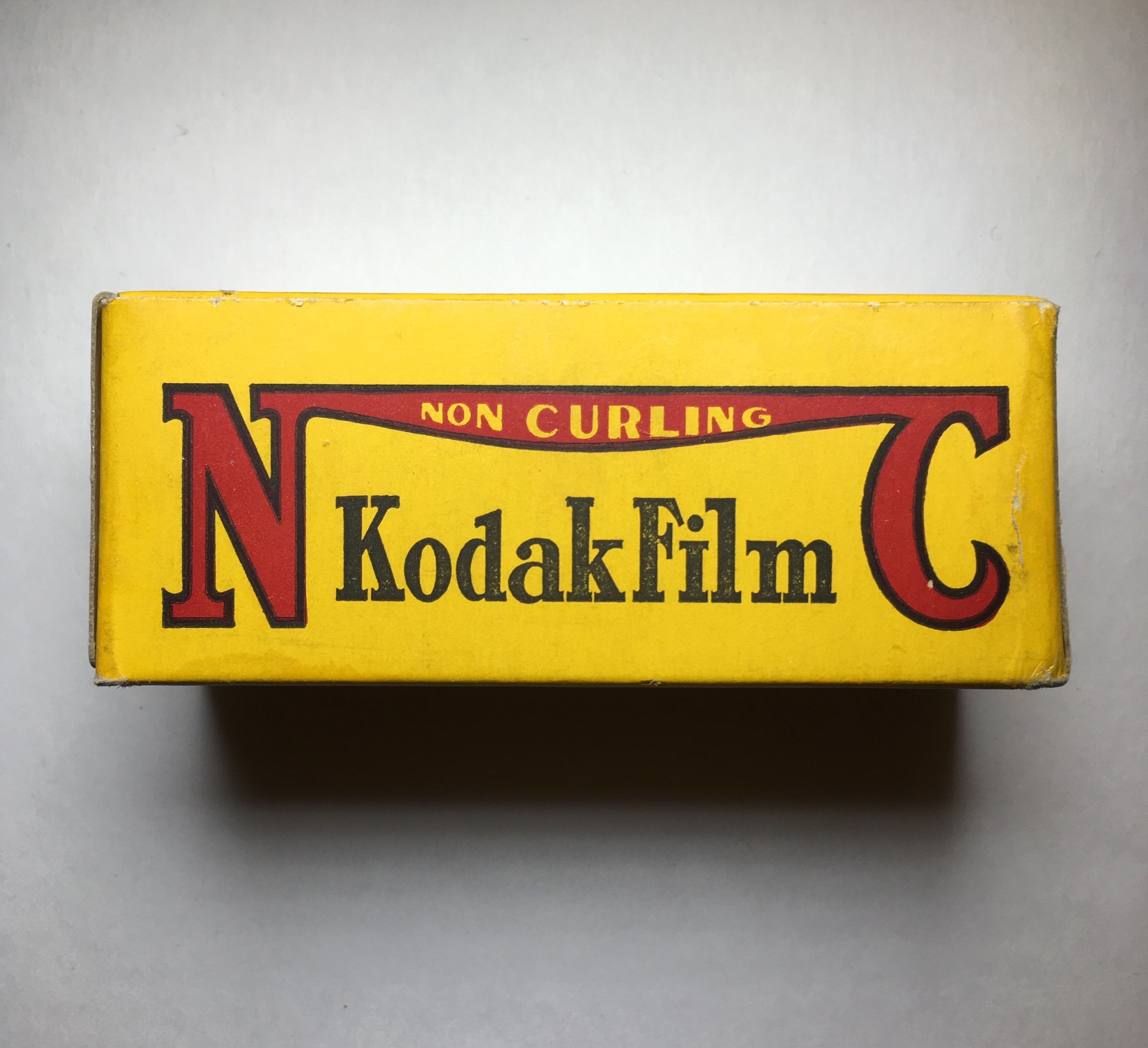 Eastman Kodak Non Curling 116 Film (Expired: 1925)